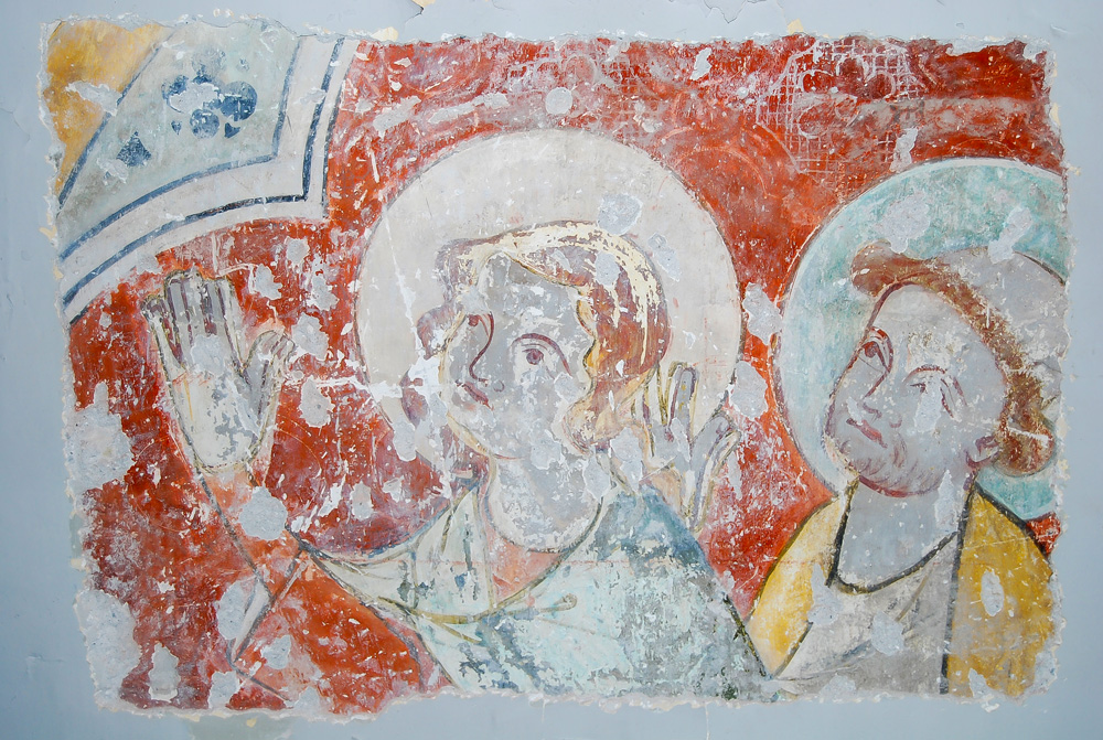 One of the mural painting of St Jean-Baptiste Church (in Vif, France)